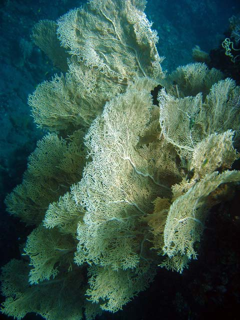 Gorgonian sea fan (Annella mollis), Bali, Indonesia